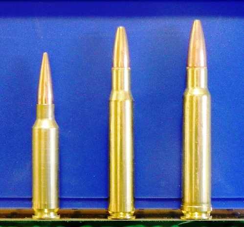 Cartridge comparison 7mm GPC, 30-06 Springfield, and 338 Winchester Magnum